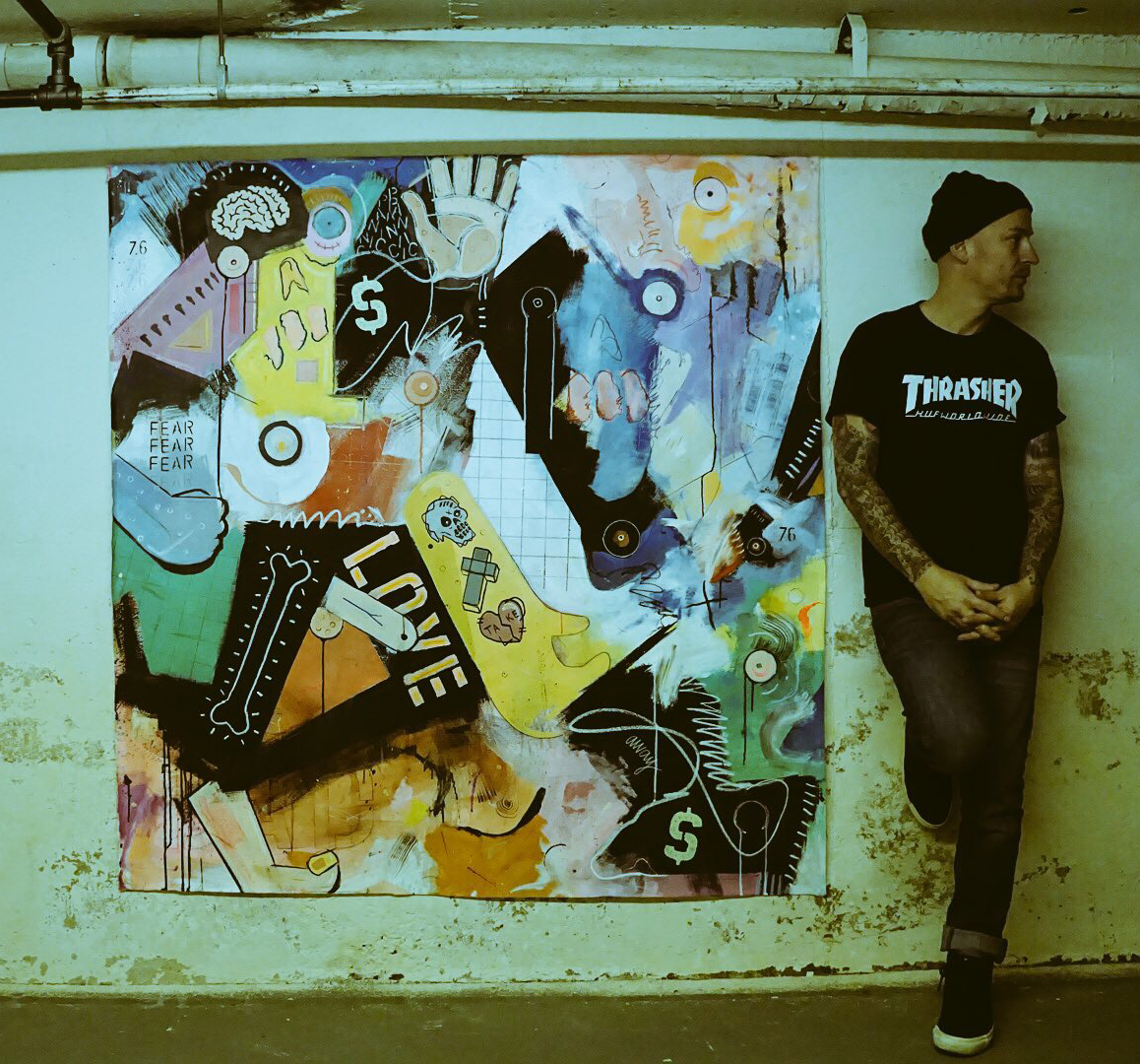 Terry Urban standing by his painting Please Don't Take Them Away